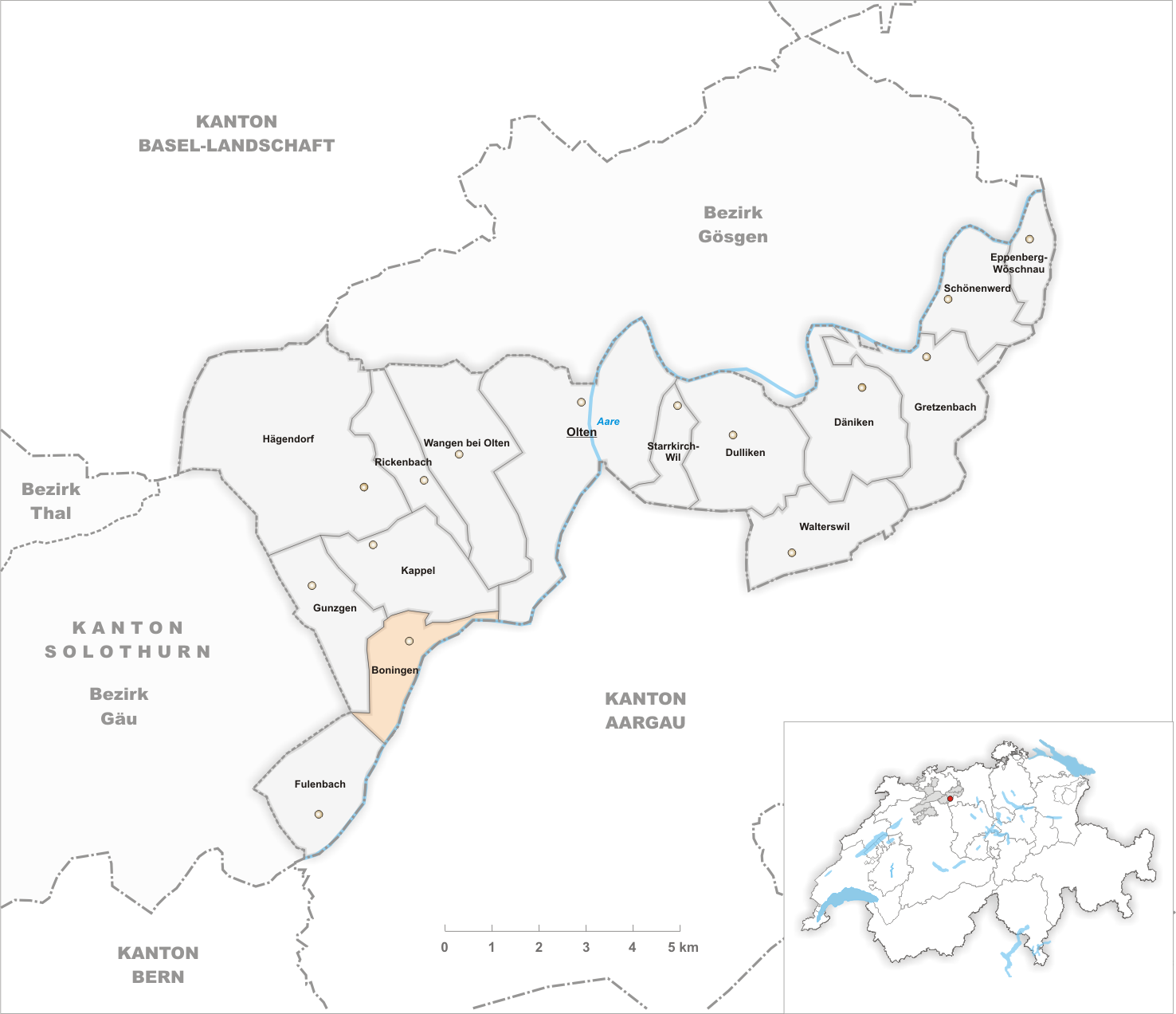 Municipality Boningen